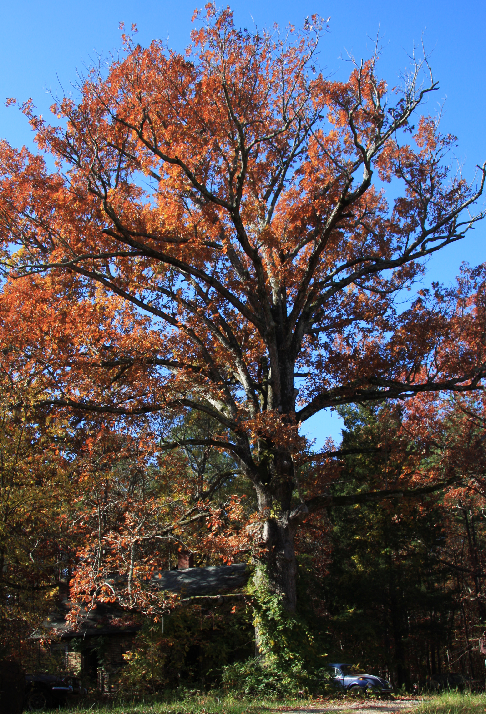 Large white oak (Quercus alba) at abandoned house site, with open eastern exposure showing branch and crown structure. 16.4 ft (5.0 m) in trunk circumference at chest height; "knees" 1-2ft high covered by the wisteria vine growing up the lower trunk; remnants of 3 generations of swings from the lowest horizontal branch. At 152 m (499 ft) altitude along a minor entrance into Duke Forest, Durham North Carolina.